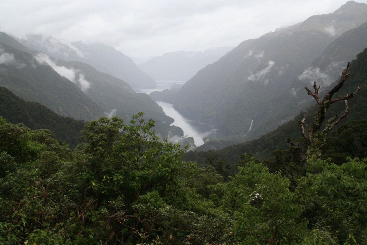 Doubtful Sound - Deep Cove.